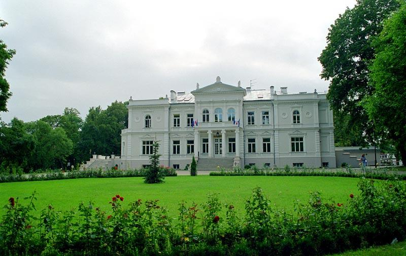 Bialystok, Poland, form with the permission of the auther